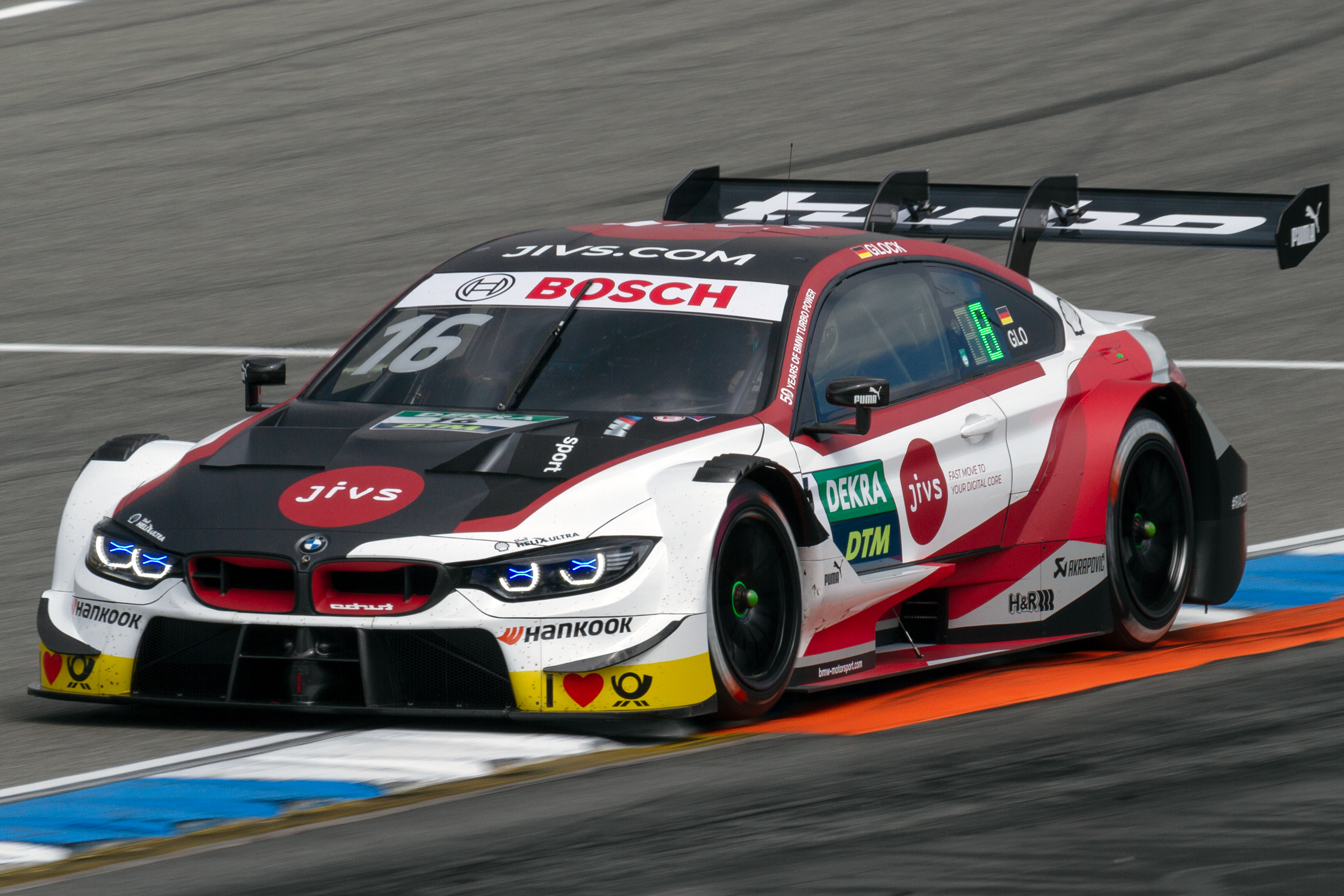 2019 DTM Hockenheimring (May): BMW M4 Turbo DTM of Timo Glock